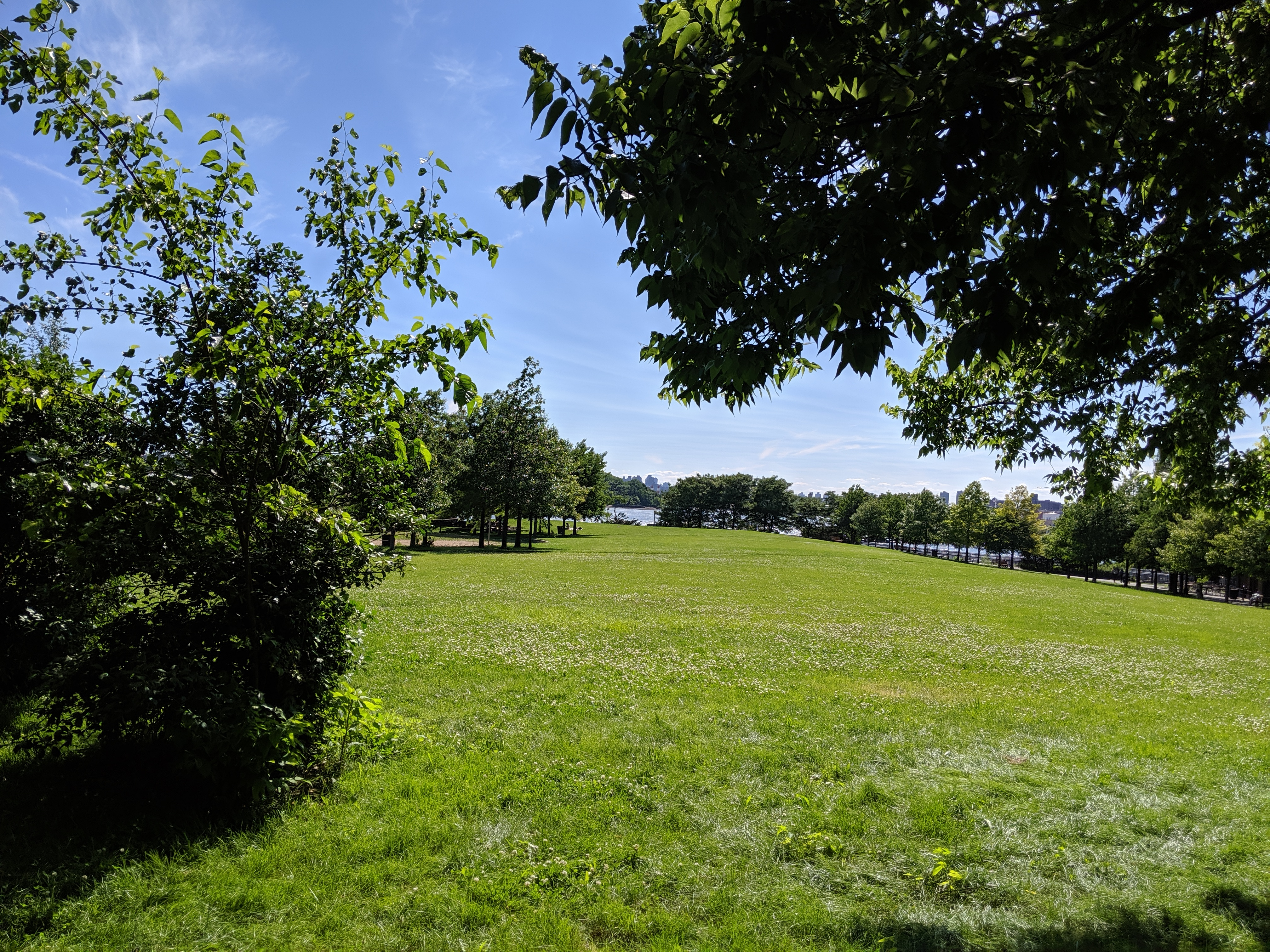 The central lawn area in Barretto Point Park in Bronx, NY, USA. View to the south and the East River.